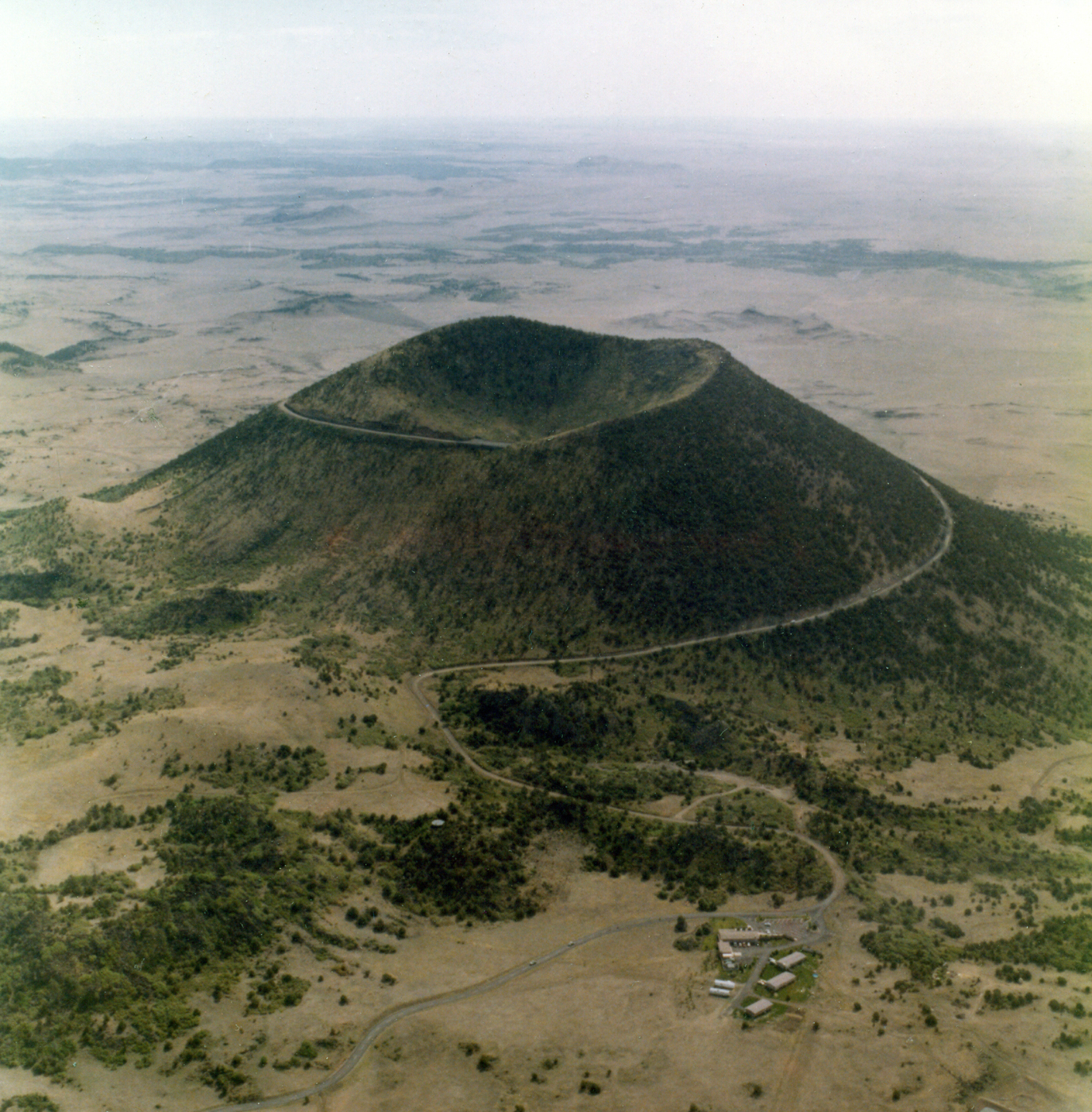 Capulin Volcano National Monument, New Mexico. Capulin Mountain, a huge cinder cone which last erupted between 58,000 to 62,000 years ago, rises more than 1,000 feet above its base.